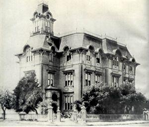 Oakland High, from where George Malcolm Stratton graduated. Not the modern school.